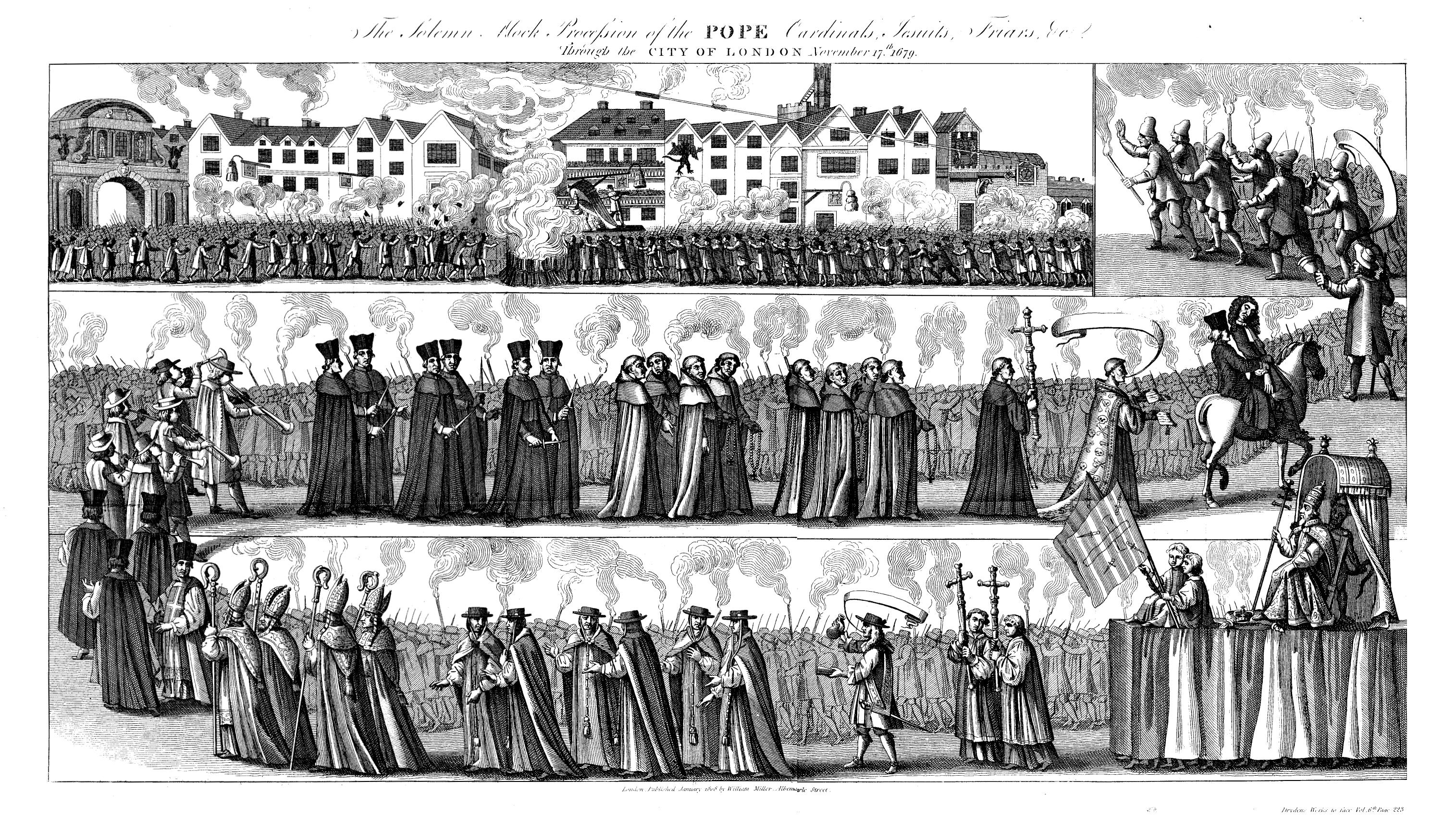 A 19th-century copy of a 17th-century engraved broadside on the Popish Plot showing a Whig mock procession held in London on 17 November 1680 during the height of the Exclusion Crisis. An Exclusion Bill was introduced in the House of Commons with the aim of excluding James, Duke of York, the brother and heir presumptive of Charles II of England from the thrones of England, Scotland and Ireland because he was Roman Catholic. The Tories opposed exclusion while the "Country Party", who were soon to be named the Whigs, supported it. Every November, on the anniversary of Elizabeth I's accession, the Whigs organised huge processions in London in which the Pope was burnt in effigy. The engraving has three lines of effigies of the Pope, cardinals, Jesuits and other Roman Catholics being carried in a mock procession. The top left section shows the effigies being thrown on to a large bonfire outside Temple Bar while a crowd observes the proceedings.